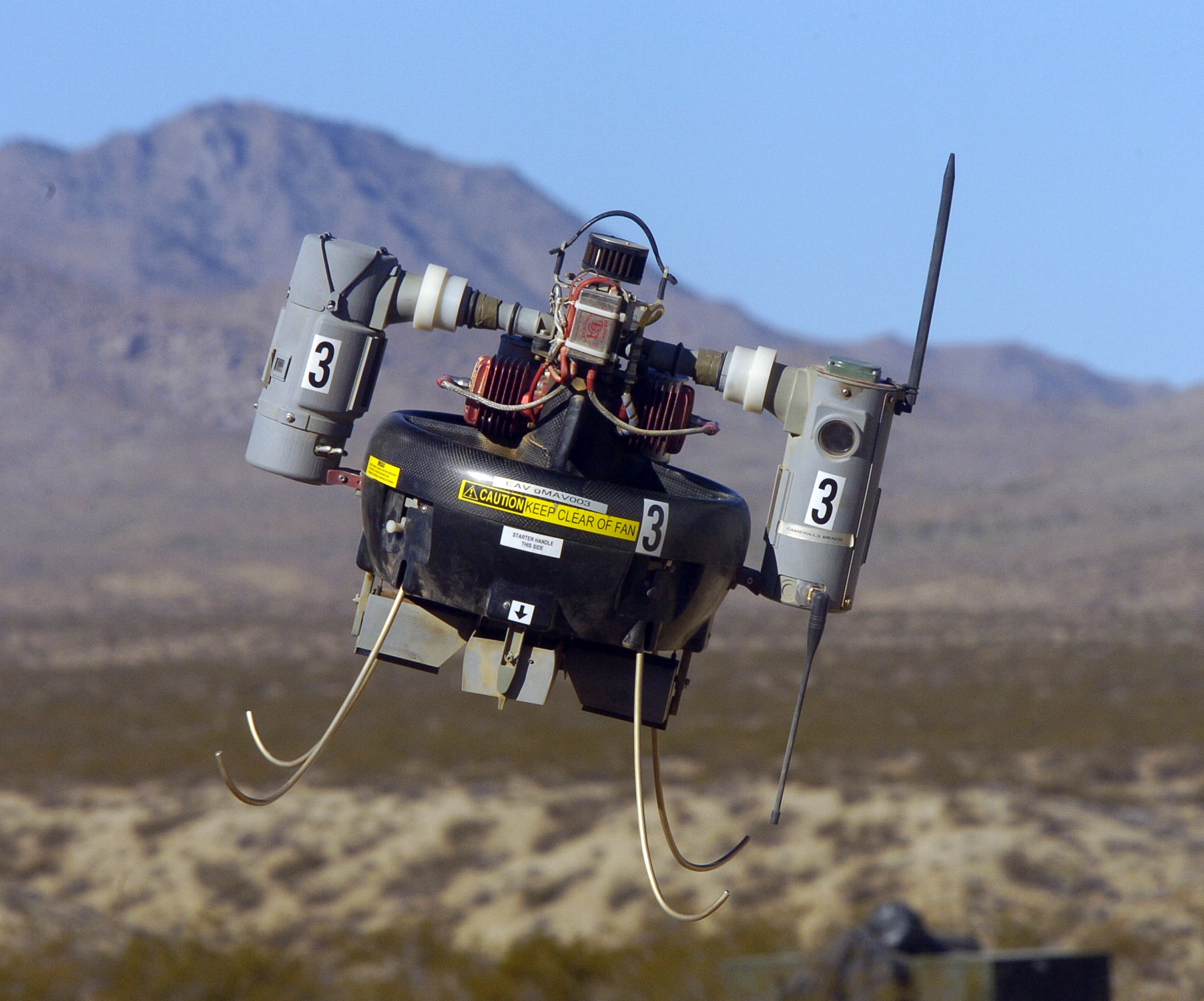 061114-N-9671T-146 China Lake, California - The Honeywell RQ-16 T-Hawk Micro Air Vehicle (MAV) flies over a simulated combat area during an operational test flight. The MAV is in the operational test phase with military Explosive Ordnance Disposal (EOD) teams to evaluate its short-range reconnaissance capabilities.